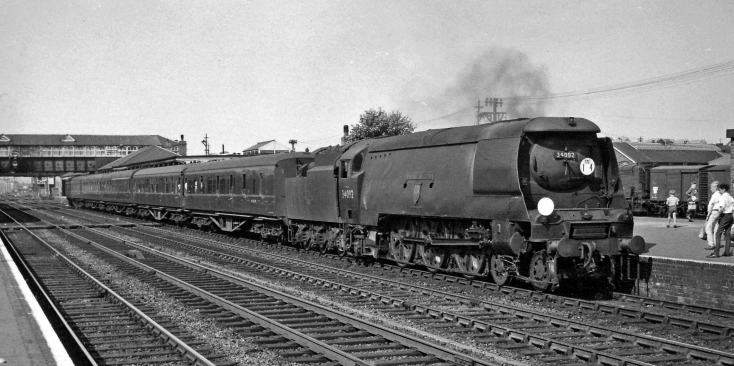 Eastleigh station, with a Special for Salisbury via Southampton. View northward, towards Winchester, Basingstoke and London: major junction on the ex-LSW Waterloo - Weymouth main line. The Special was probably for Eastleigh Works Open Day (see kids). The Locomotive is SR Bulleid Light Pacific No. 34092 'City of Wells', built 9/49, withdrawn 11/64 but preserved and is now on the Keighley & Worth Valley Railway.